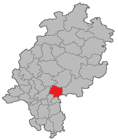 Map of the district court Hanau